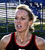 Professional triathlete Desirée Ficker running in the 2009 Statesman Cap 10K. (She won the women's overall division in 34:56.0, a pace of 5:37/mi.)